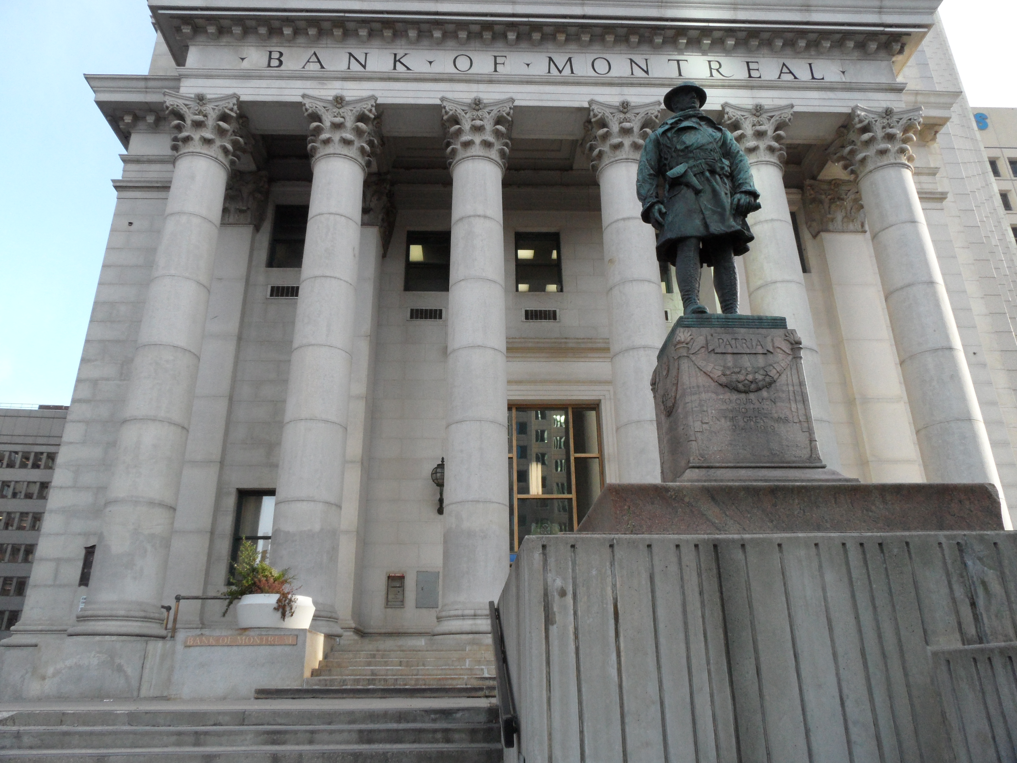 Bank of Montreal & Memorial "To our men who fell" in WWI. (Winnipeg, Manitoba)